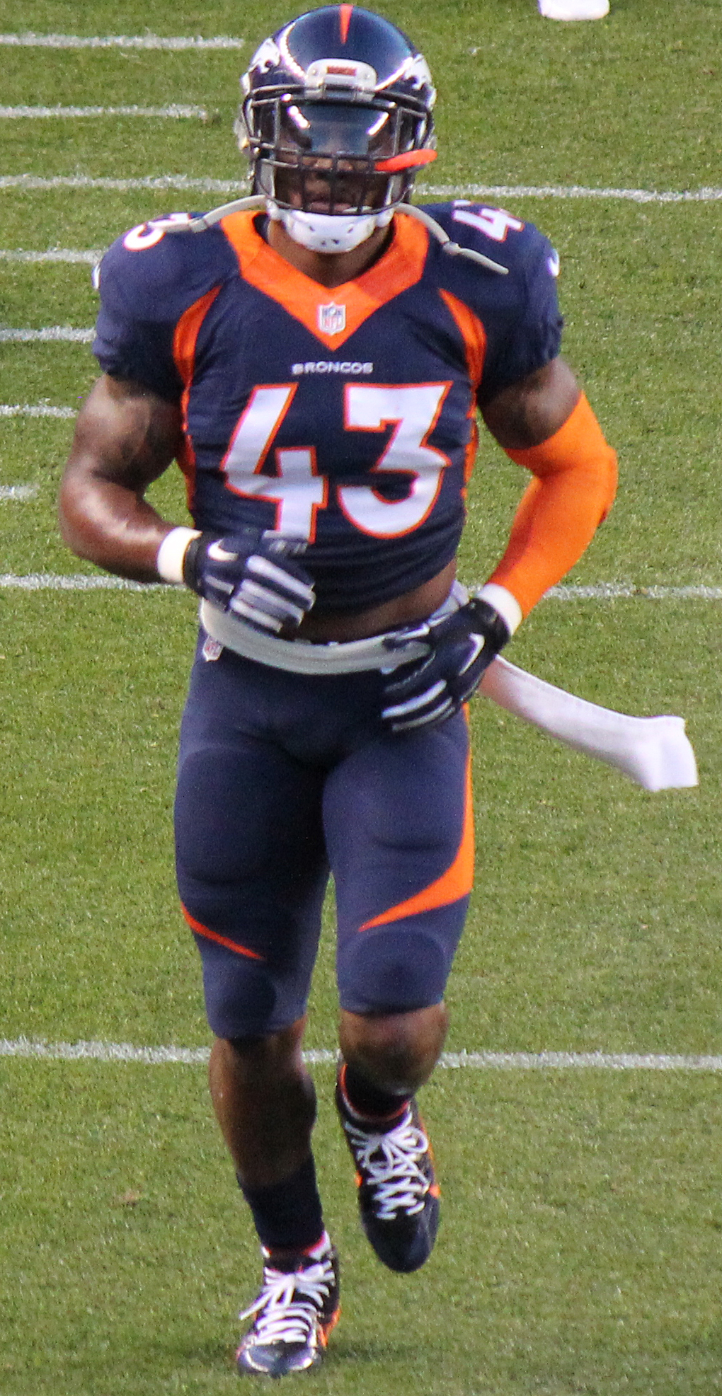 T. J. Ward, a player on the National Football League.